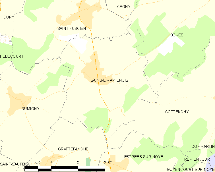 Map of French municipality Sains-en-Amiénois